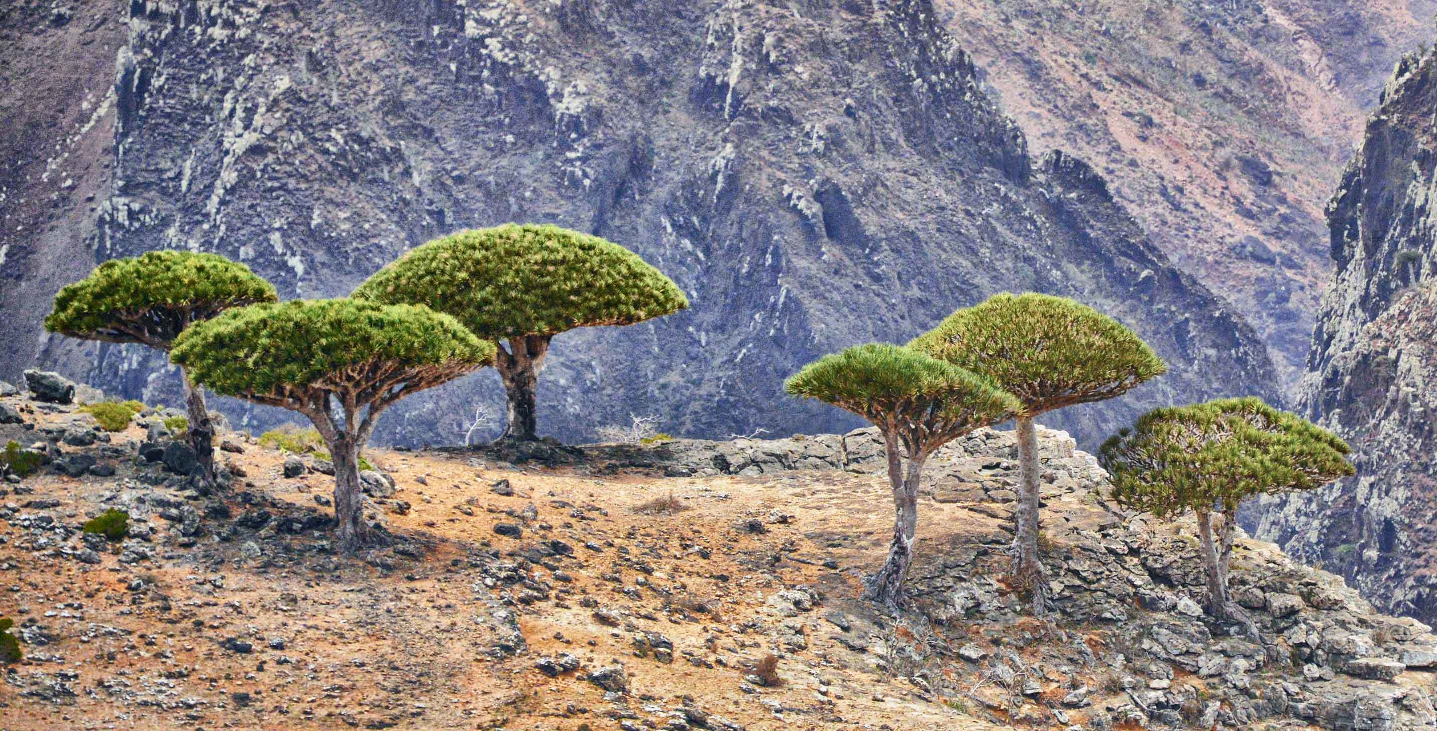 Dragon's Blood Tree (Dracaena cinnabari) — trees endemic to/on Socotra island, Yemen.